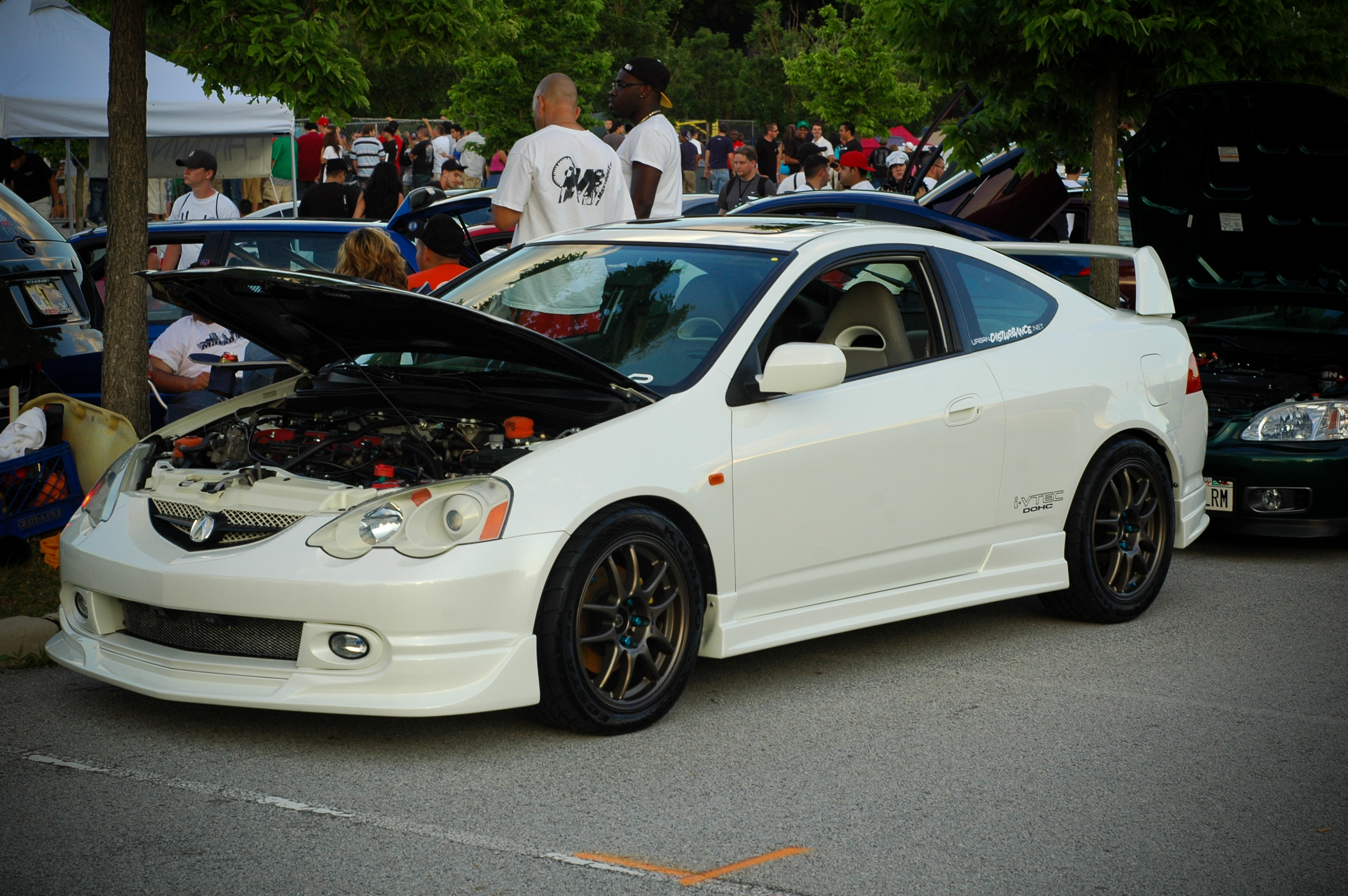 Hot Import Nights at McCormick Place in Chicago, Illinois on 11 July 2009.